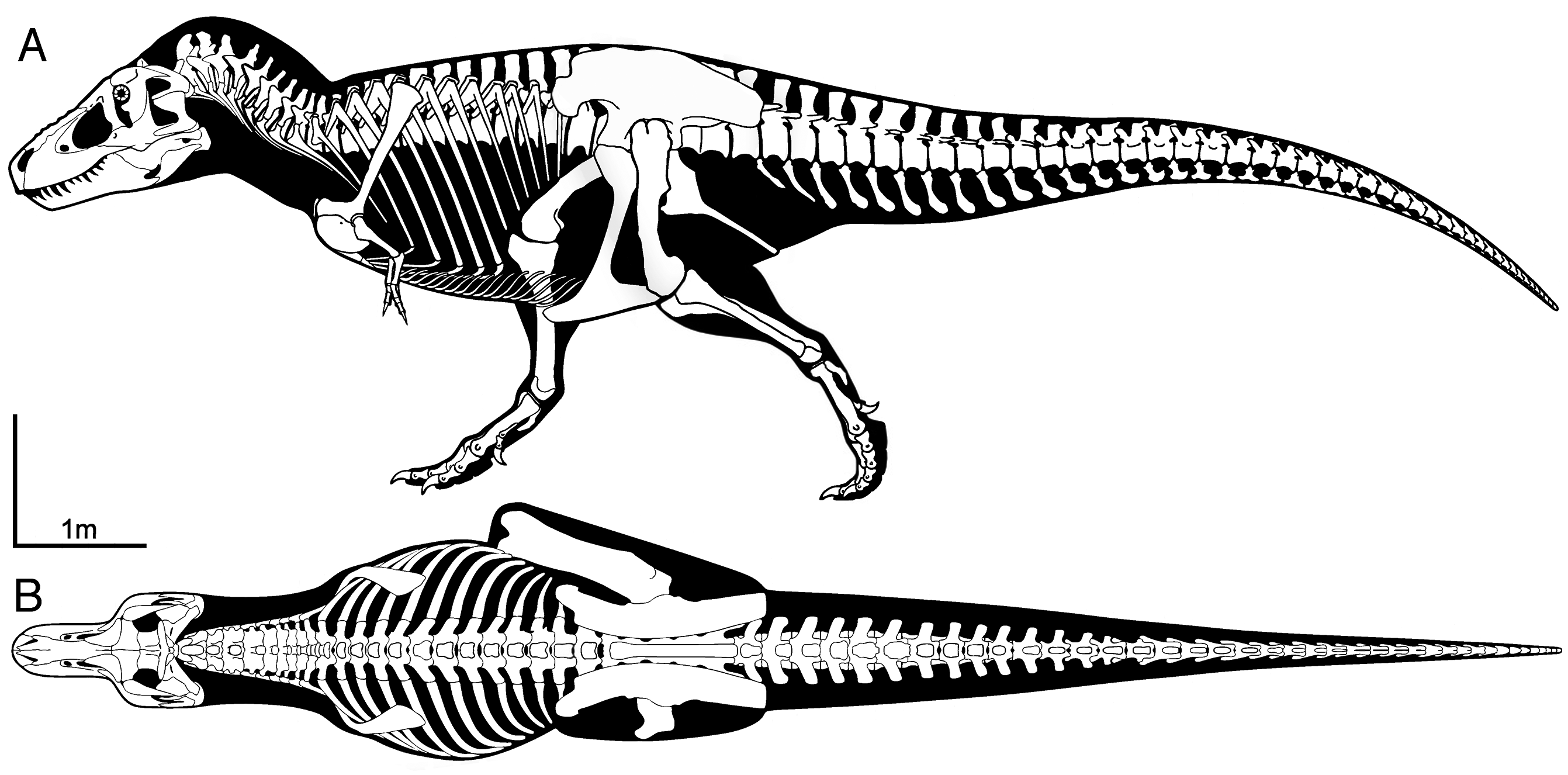 Reconstructions of Tyrannosaurus rex (Field Museum FMNH PR 2081) in lateral view (A) and dorsal view (B). The lateral view (A) is modified with the dorsal margin of the neck conservatively raised based on recent muscle reconstructions (Snively & Russell, 2007a, 2007b).